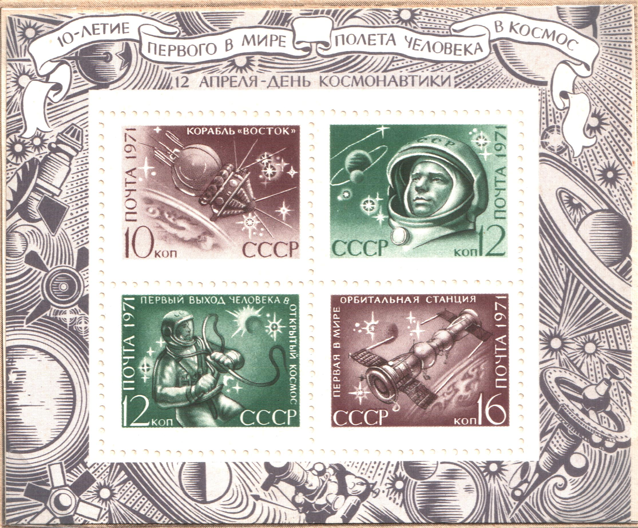 USSR stampː Cosmonauts and Spaceships. 1 Vostok 1. 2 Yuri Gagarin. 3 First Man Walking in Space. 4 First Orbital Station. Seriesː 10th Anniversary of First Manned Space Flight and National Cosmonautics Day